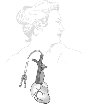 Temporal catheter for hemodialysis